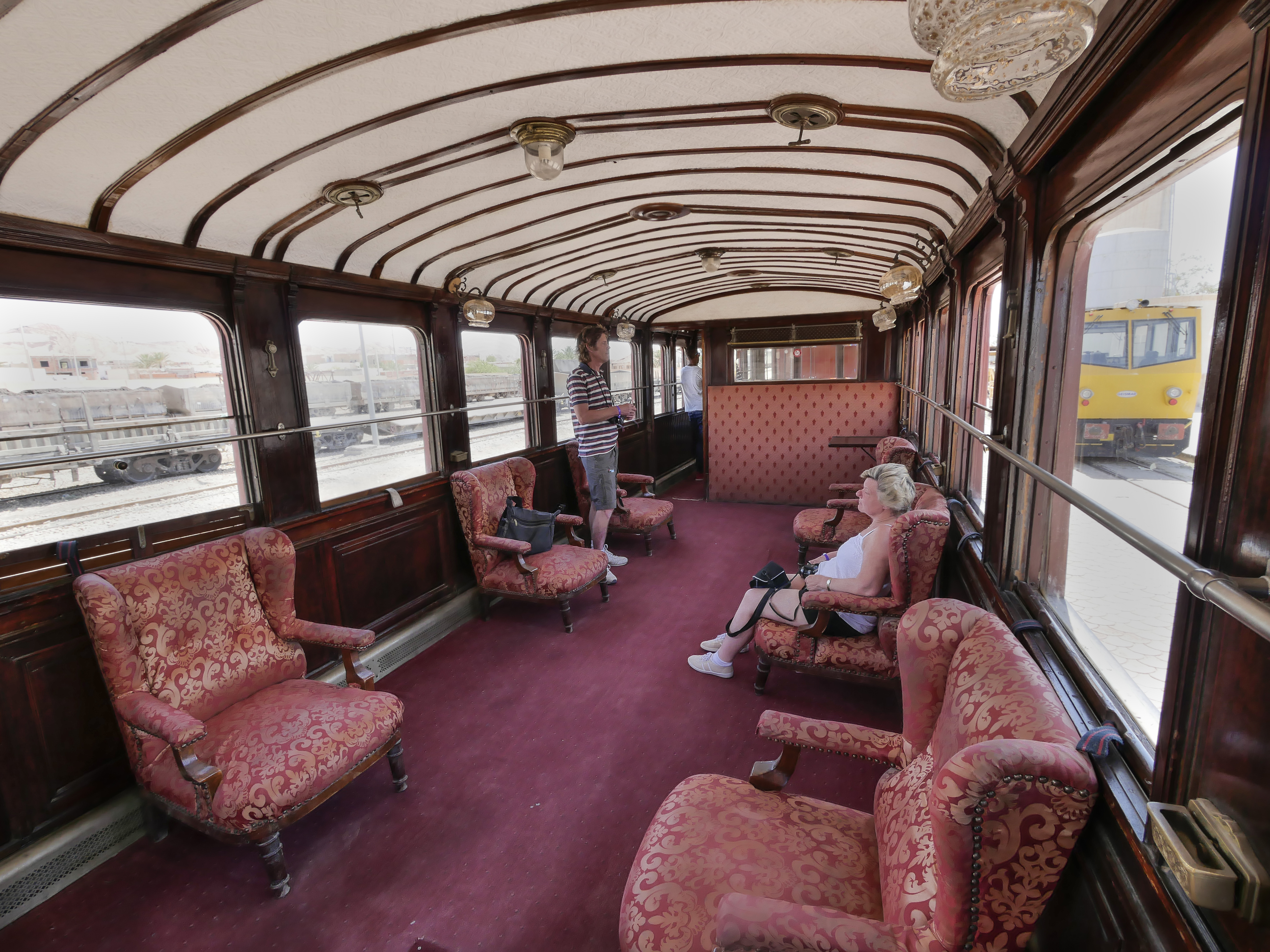 Interior of the Red Lizard train